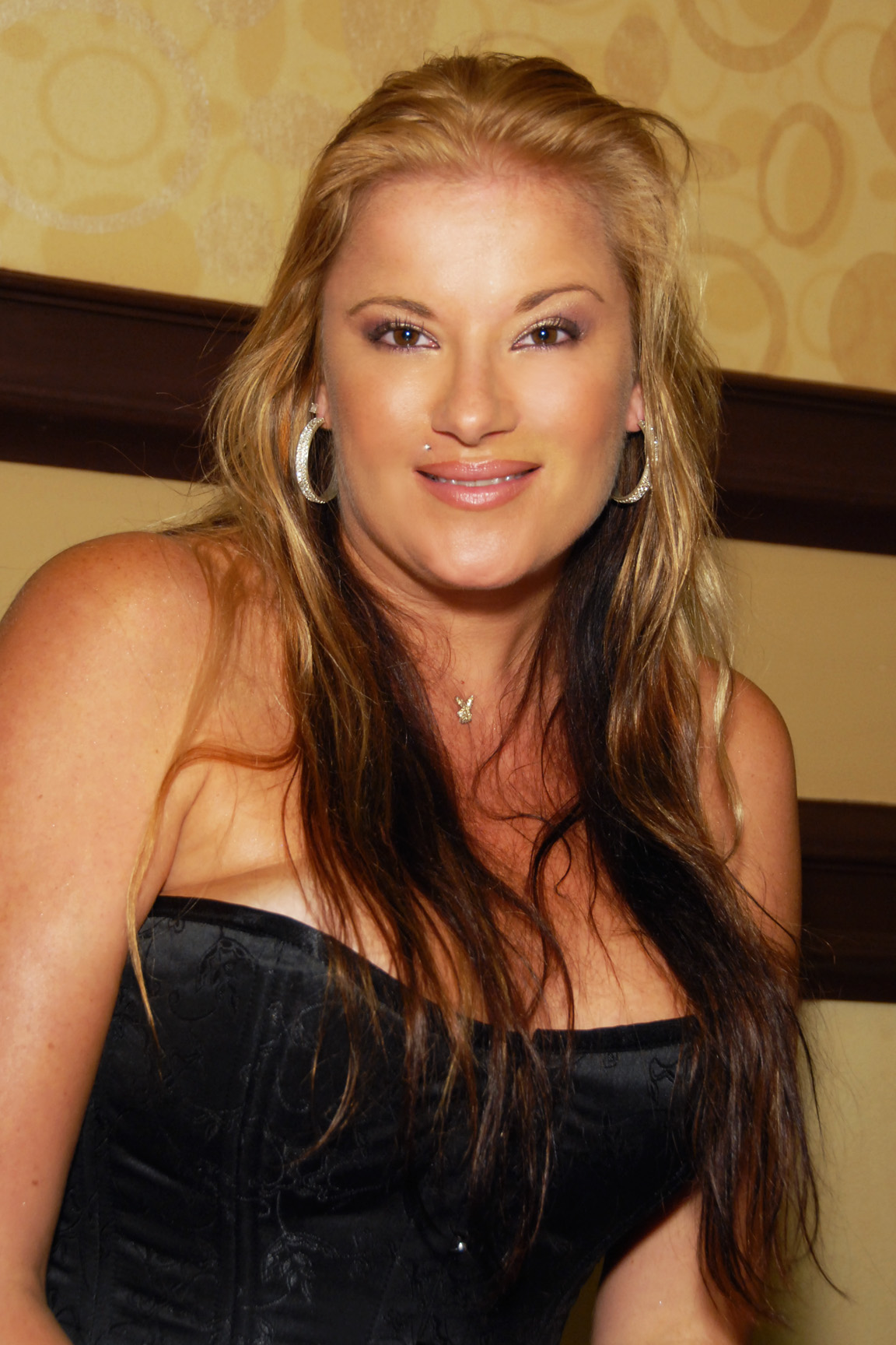 Donna Perry, Los Angeles, CA on October 1, 2011 - Photo by Glenn Francis of